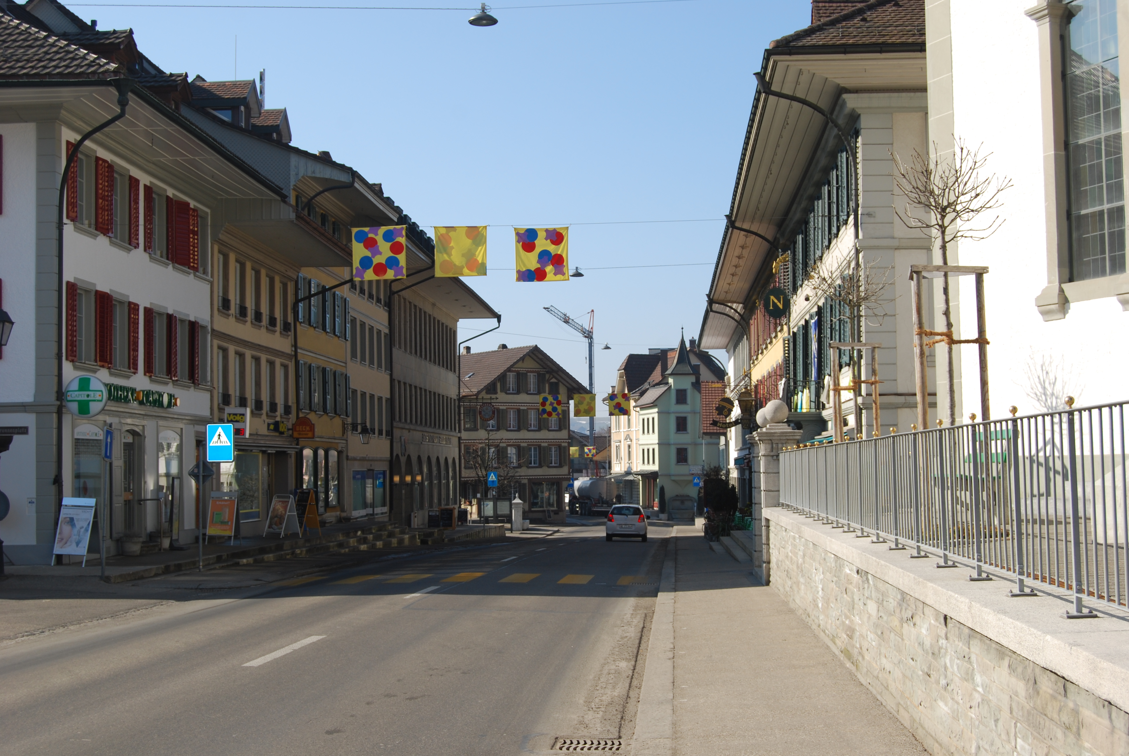 Huttwil, canton of Bern, SwitzerlandEsperanto: Huttwil, Kantono Berno, Svislando